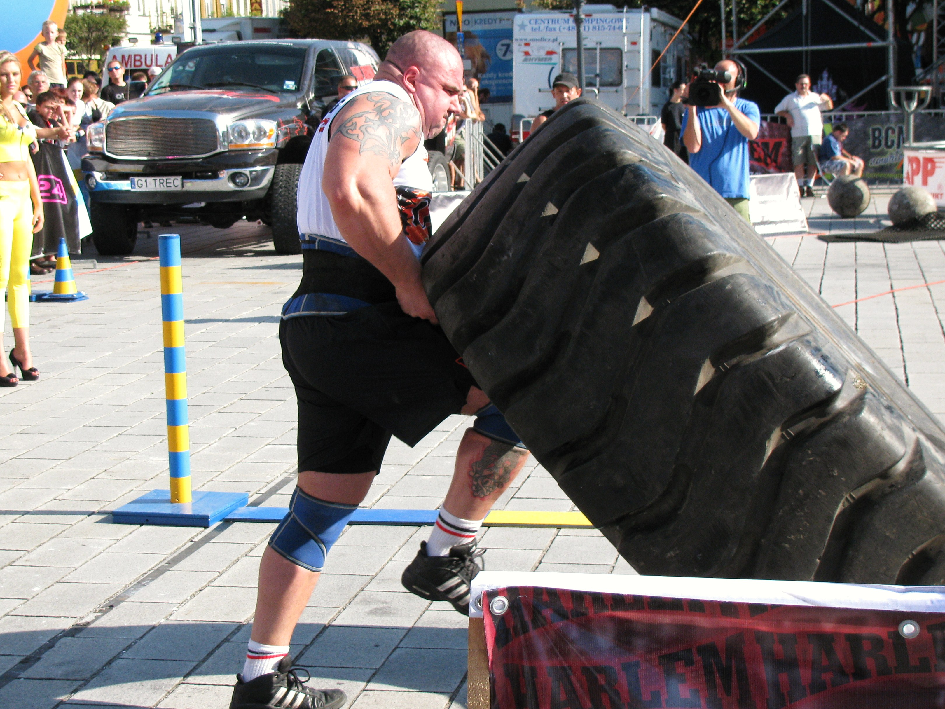 Mareks Leitis - a strength athlete from Latvia at the Tyre Flip.